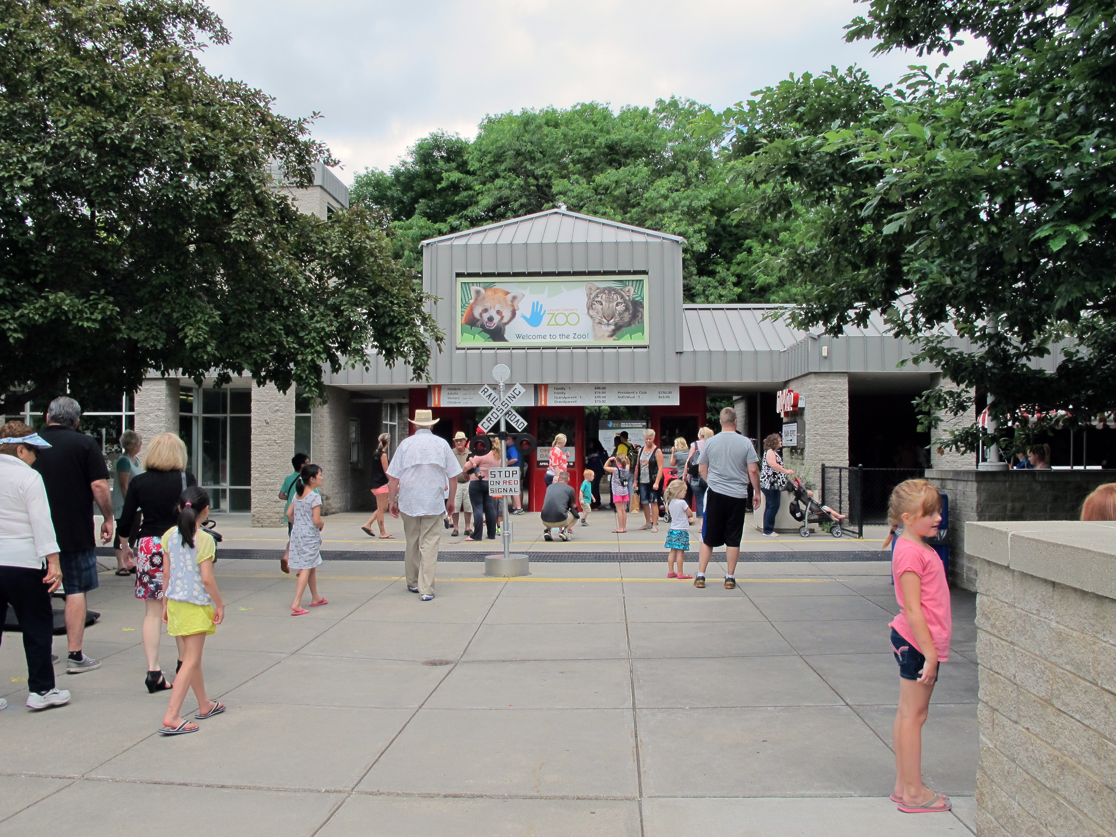 Photo of the entrance to the Lincoln Children's Zoo, 1222 S. 27th Street in Lincoln, Nebraska. Photo taken facing nearly northeast at the front gates of the zoo. The ZO&O Train Depot can be partially seen on the right (with the backside of the train partially in the photo; over the wall near right-center) and the Treetop Toys Gift Shop partially on the left (sets of windows near left-center).